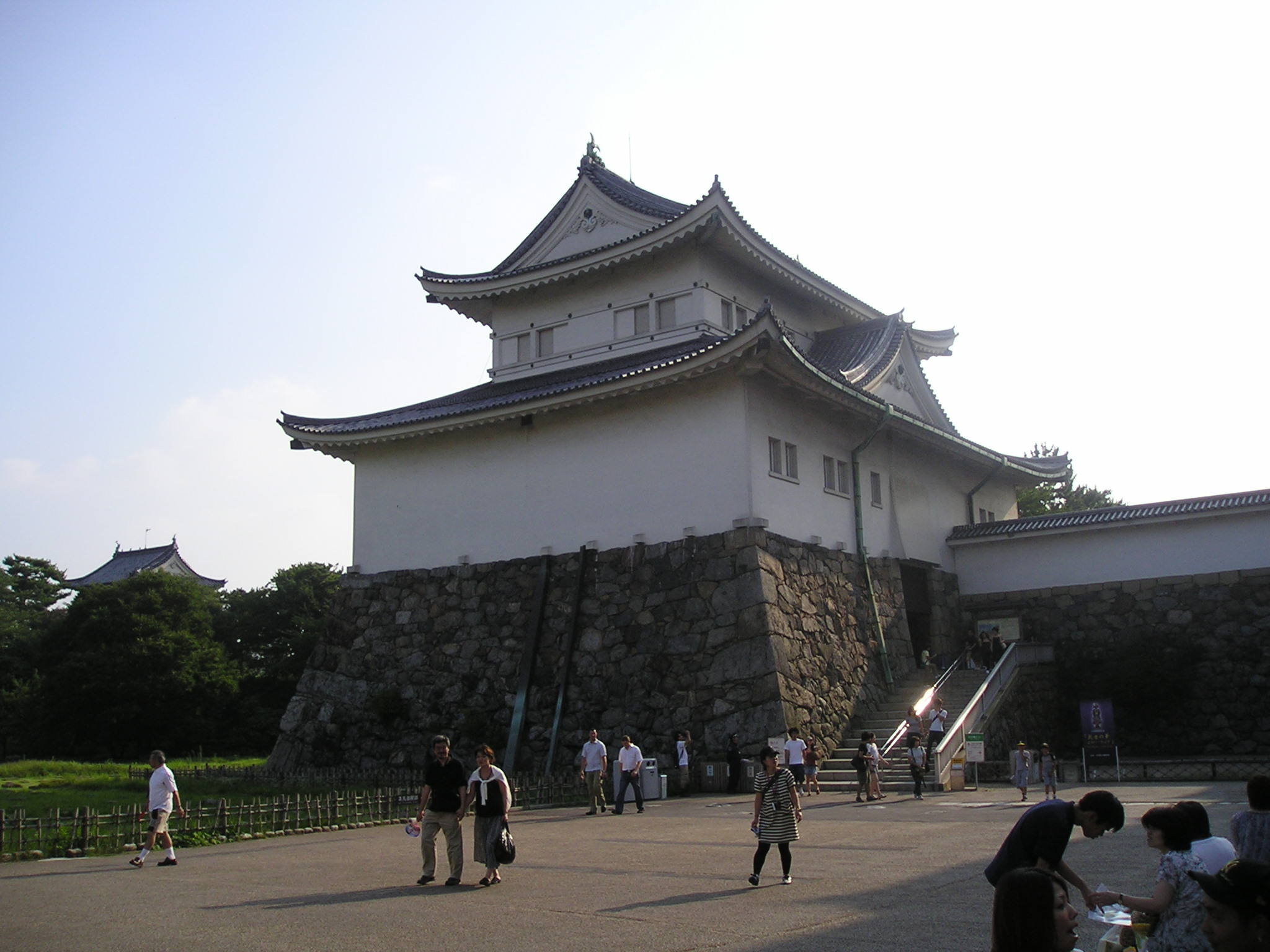 Nagoya Castle, Japan